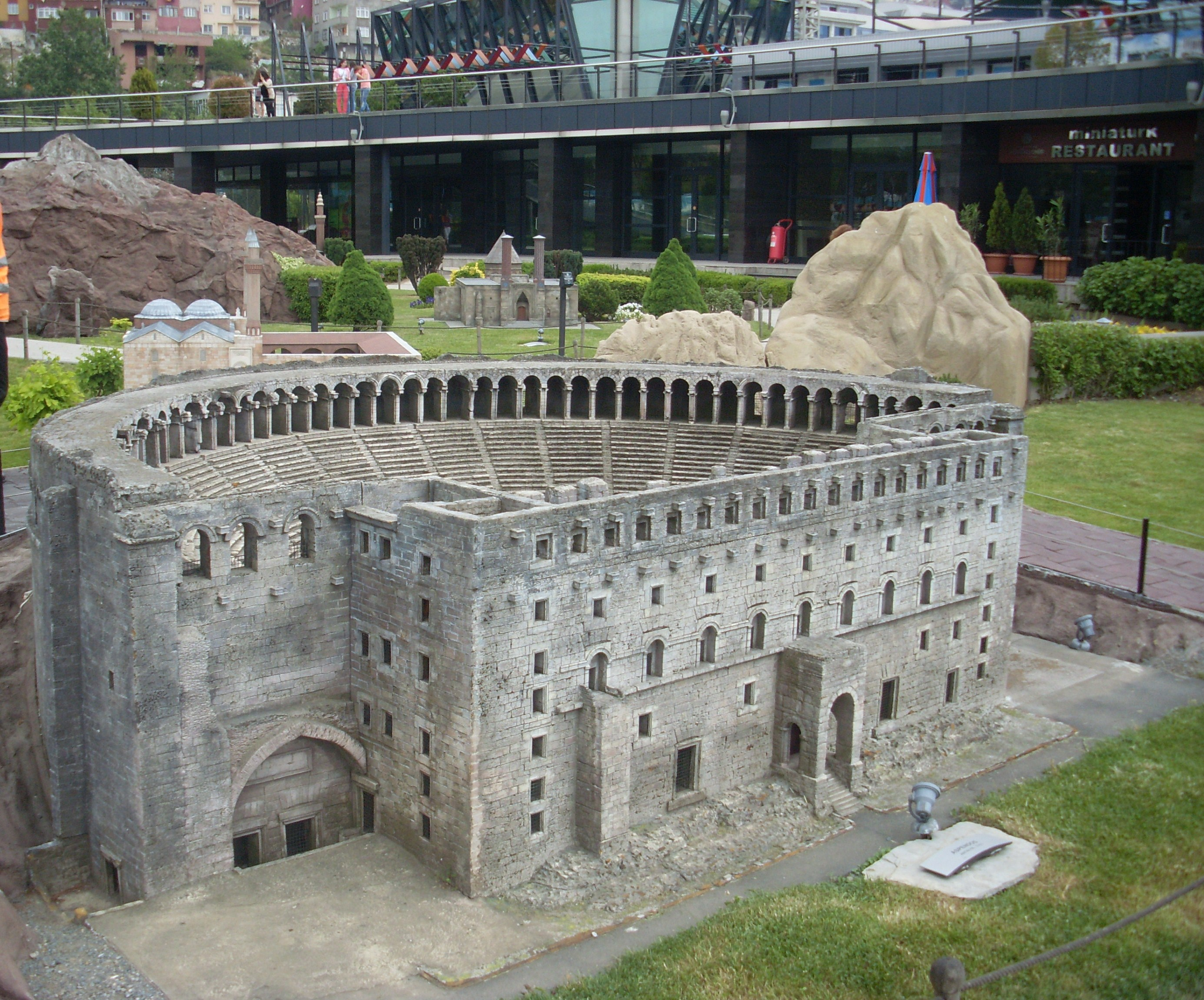 Miniaturk Aspendos